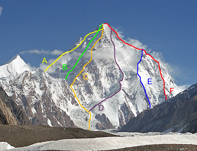 K2 from the south, showing the main routes to have been climbed on this side of the mountain. A: West Ridge/Face (Japanese, 1981) B: West Face direct (Russian, 2007) [mistake because real west wall more left - you can't see it from this photo, also south-west is just south ridge. somebody correct this, please.] C: South-West pillar/"Magic line" (Polish/Slovak, 1986) D: South Face (Polish, 1986) E: South-South-East spur (Scott (1983) and Cesen (1986) to Shoulder, Basque (1995) to summit) F: South-East Ridge/Abruzzi Spur (Italian, 1954)